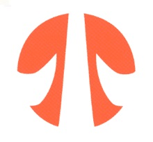 Ogawa Nagano chapter